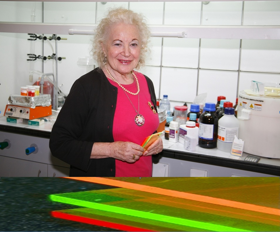 Professor Renata Reisfeld at her laboratory